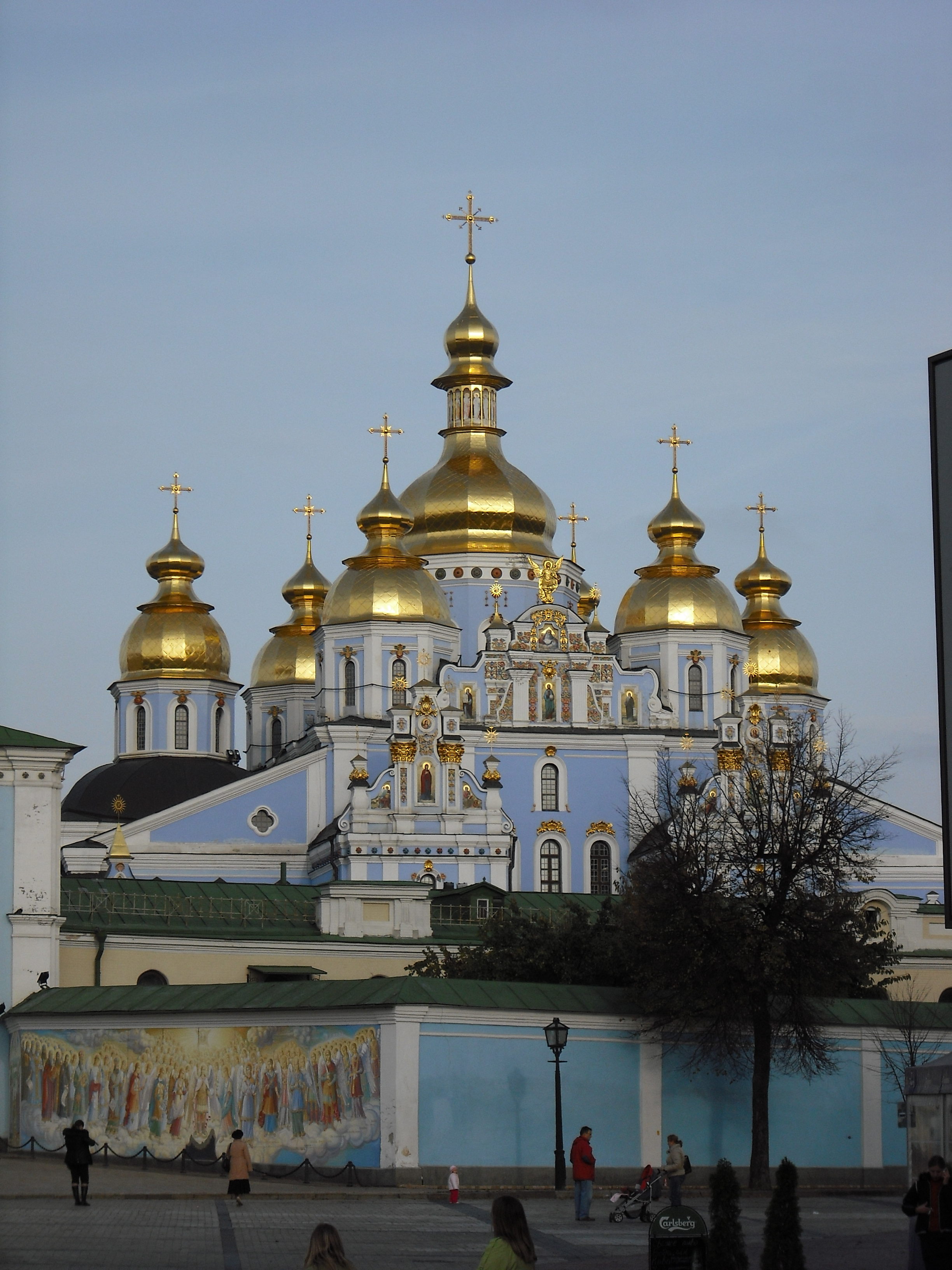 Kiev - St. Michael's Golden-Domed Monastery